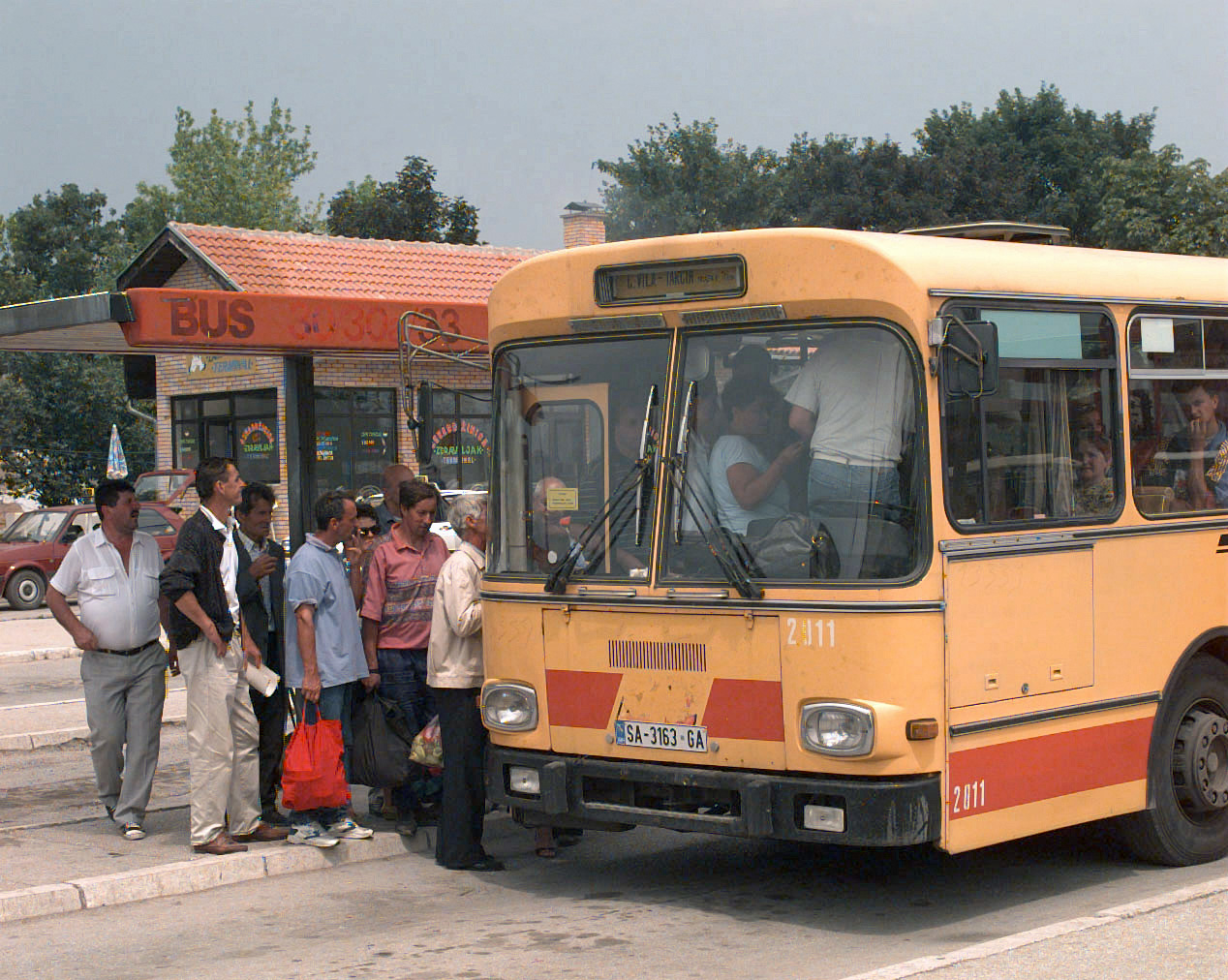 Passengers wait to board a commuter bus at the Ilidža bus terminal in Sarajevo, Bosnia and Herzegovina. The bus is a former Austrian Bundesbus vehicle manufactured by Gräf & Stift.